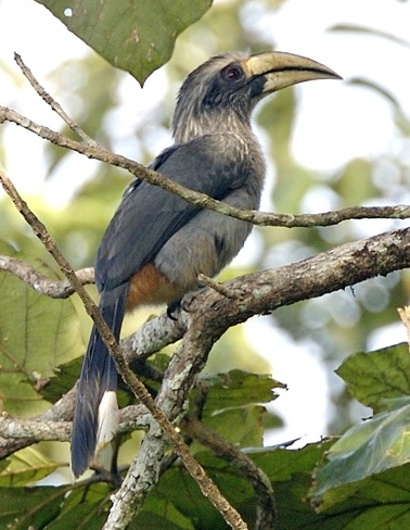 A female Malabar grey hornbill (Ocyceros griseus) in Thattekad, Kerala, India